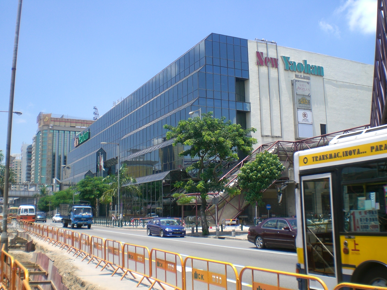 新八佰伴 Author= Mo707